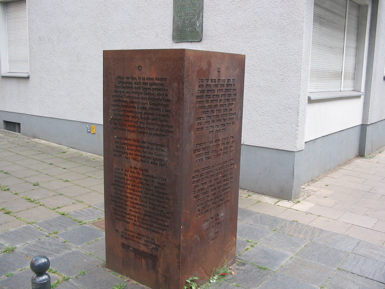 memorial for the synagoge in Witten